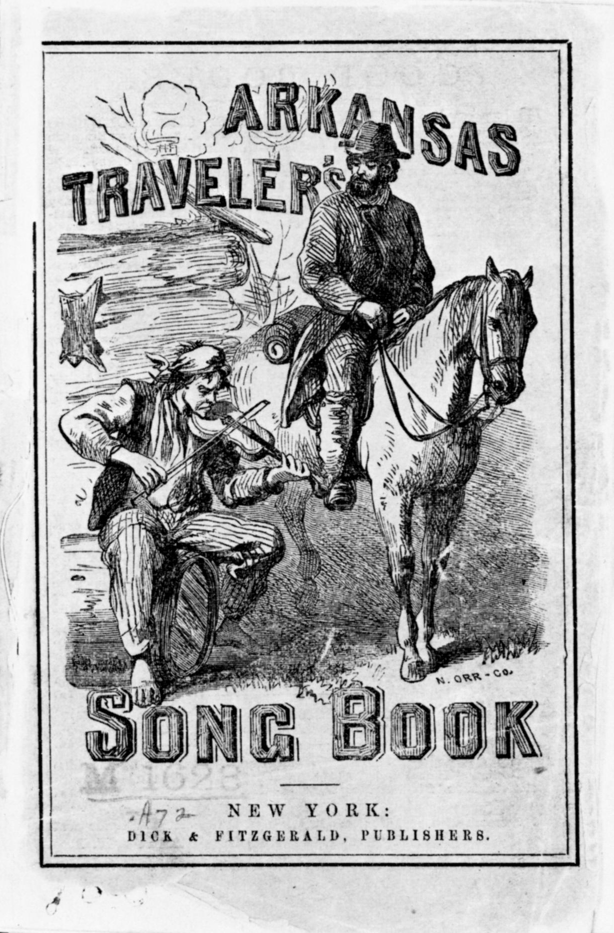 Cover of the Arkansas Traveler's Song Book, Dick & Fitzgerald, New York City 1864